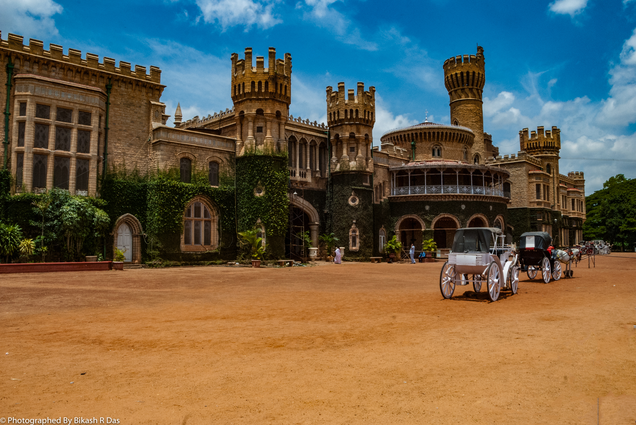 Bangalore Palace, a palace located in Bengaluru, Karnataka, India, was built by Rev. J. Garrett, who was the first Principal of the Central High School in Bangalore, now known as Central College. Rev. J. Garrett, the first principal of the Central High School, built this palace with a floor area of 45,000 sq ft (4200 m²). The palace and the grounds surrounding it are spread across 454 acres (183 hectares). British officials who were in charge of the education of the young prince HH Chamaraja Wodeyar bought the palace in 1873 A.D. from him at a cost of Rs. 40,000 and later renovated it. The palace was built in Tudor style architecture with fortified towers, battlements and turrets. The interiors were decorated with elegant wood carvings, floral motifs, cornices and relief paintings on the ceiling. The furniture, which was neo-classical, Victorian and Edwardian in style, was bought from John Roberts and Lazarus. The upkeep of the gardens was the responsibility of the horticulturist Gustav Hermann Krumbiegel. A total of 35 rooms were built in the palace with most of them being bedrooms. The renovation included addition of stained glass and mirrors, specially imported from England, besides a manual lift and wooden fans from General Electric.